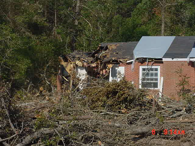 Damage from an F1 or F2 tornado in Newton County, Mississippi, that was produced by Hurricane Katrina on August 29, 2005.